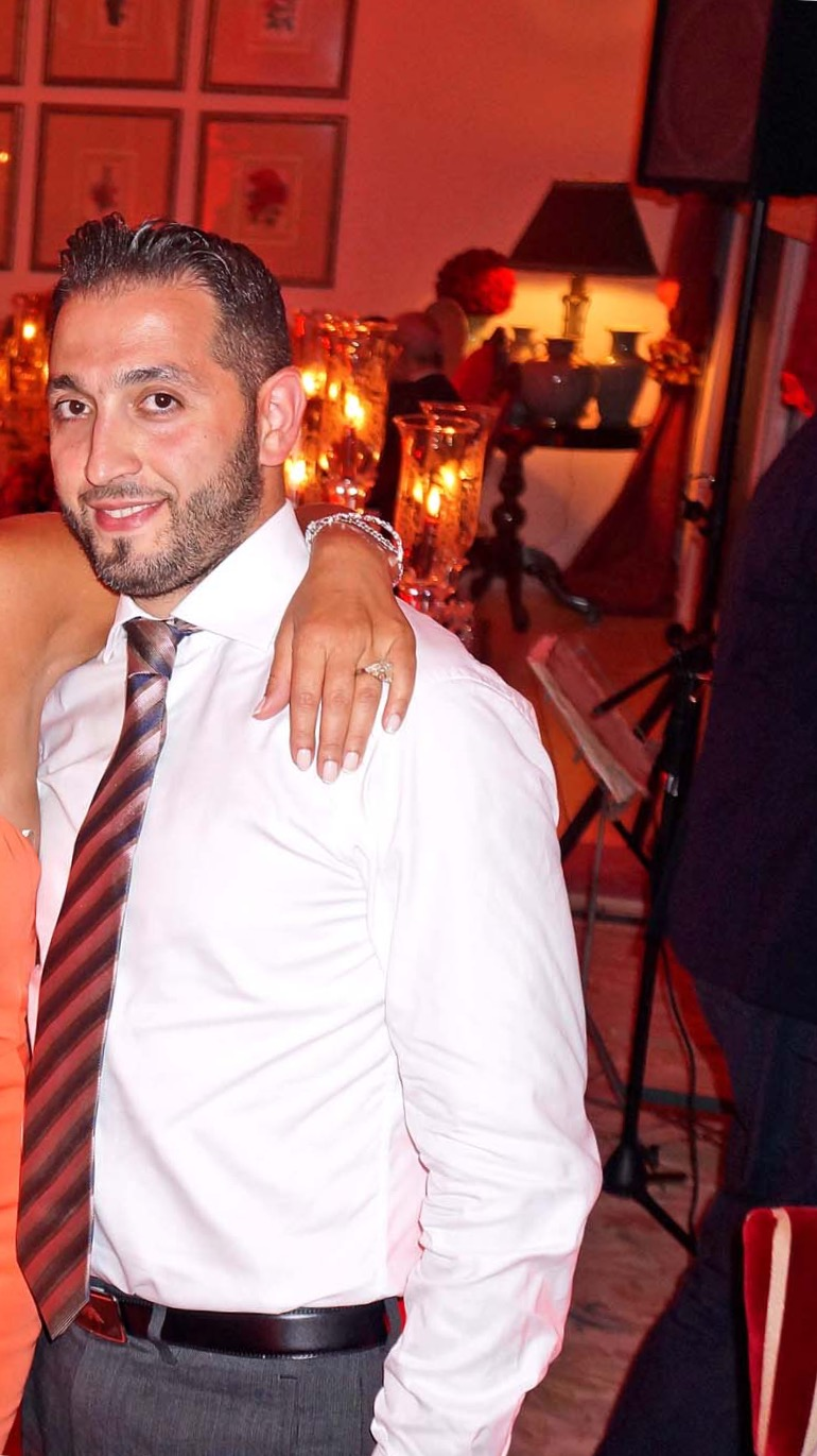 Elissa (Lebanese singer) Camil Khoury